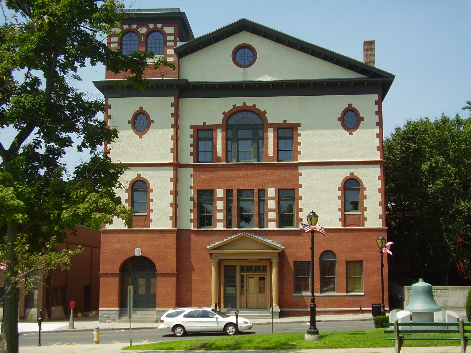 Sterling Opera House (please note Derby Superior Court is located behind the opera house)